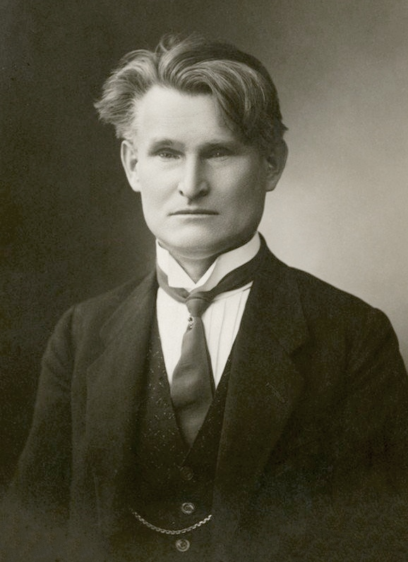 President of Lithuania Kazys Grinius (1866-1950) in Kaunas